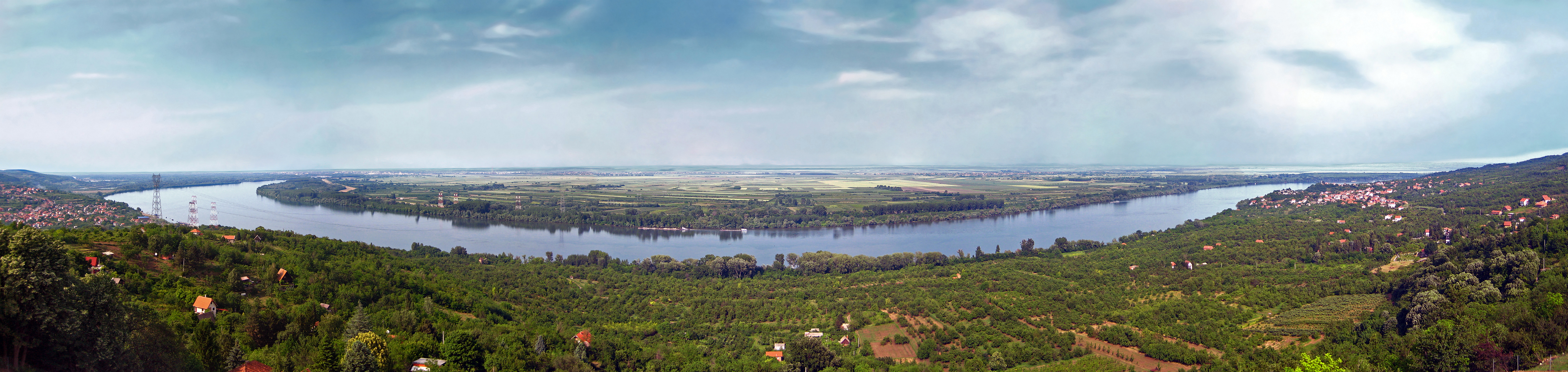 Panoramic image of Danube pictured in Ritopek, suburb of Belgrade, Serbia.